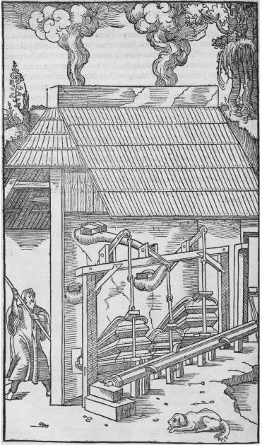 blast furnace